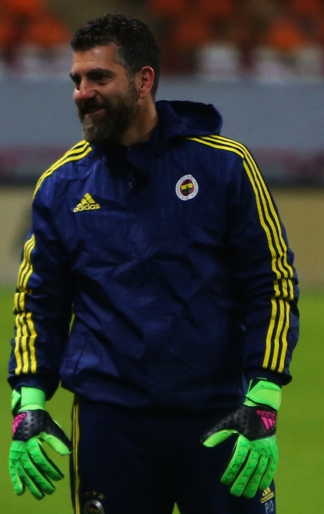 Paolo Orlandoni